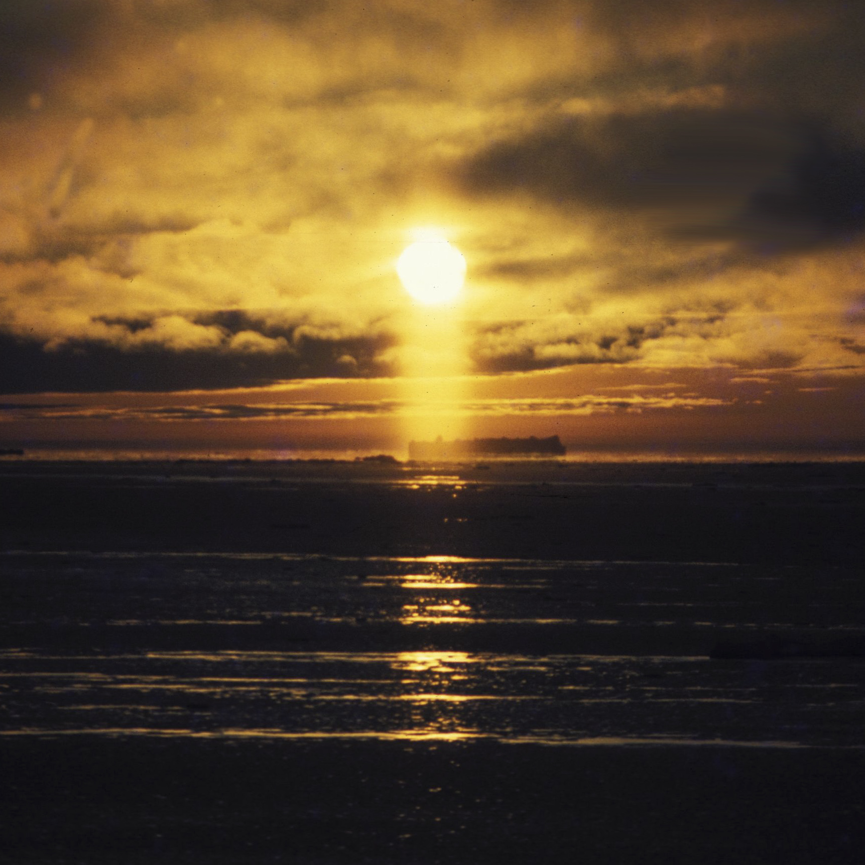 Sunset in the Southern Ocean, Antarctica with lower Sun pillar.